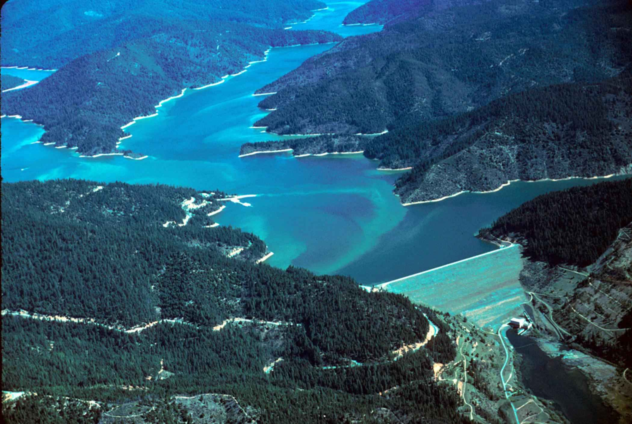 Trinity Dam and Trinity Lake reservoir — in Whiskeytown–Shasta–Trinity National Recreation Area. Located in Trinity County, Shasta-Trinity National Forest, northern California. Image from Public domain images website